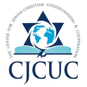 CJCUC Organization Logo